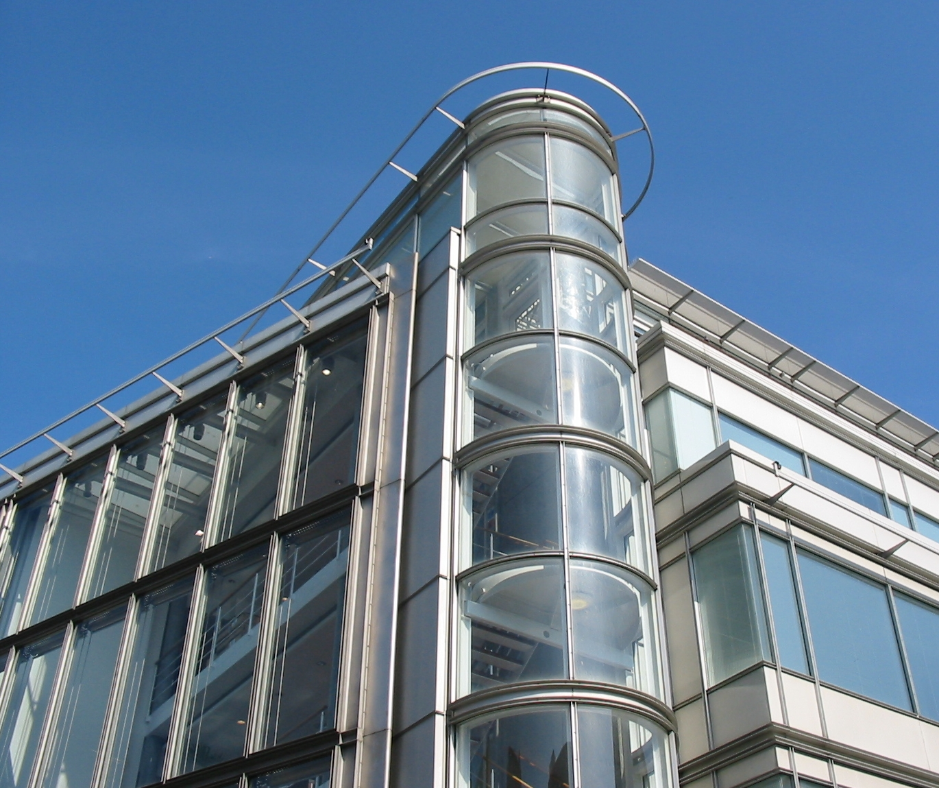 Jersey